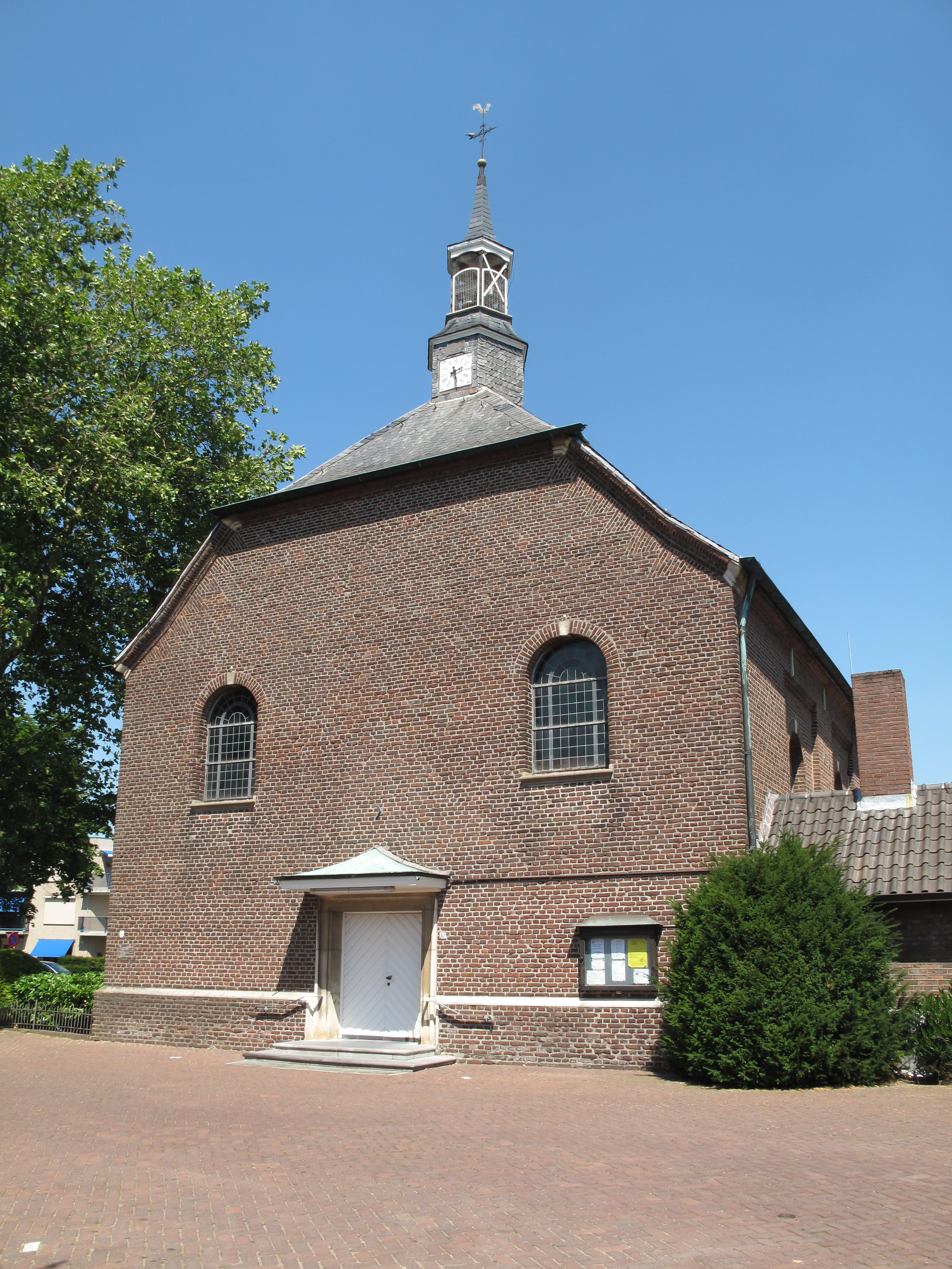 Süderwick, church: Sankt Michaelkirche